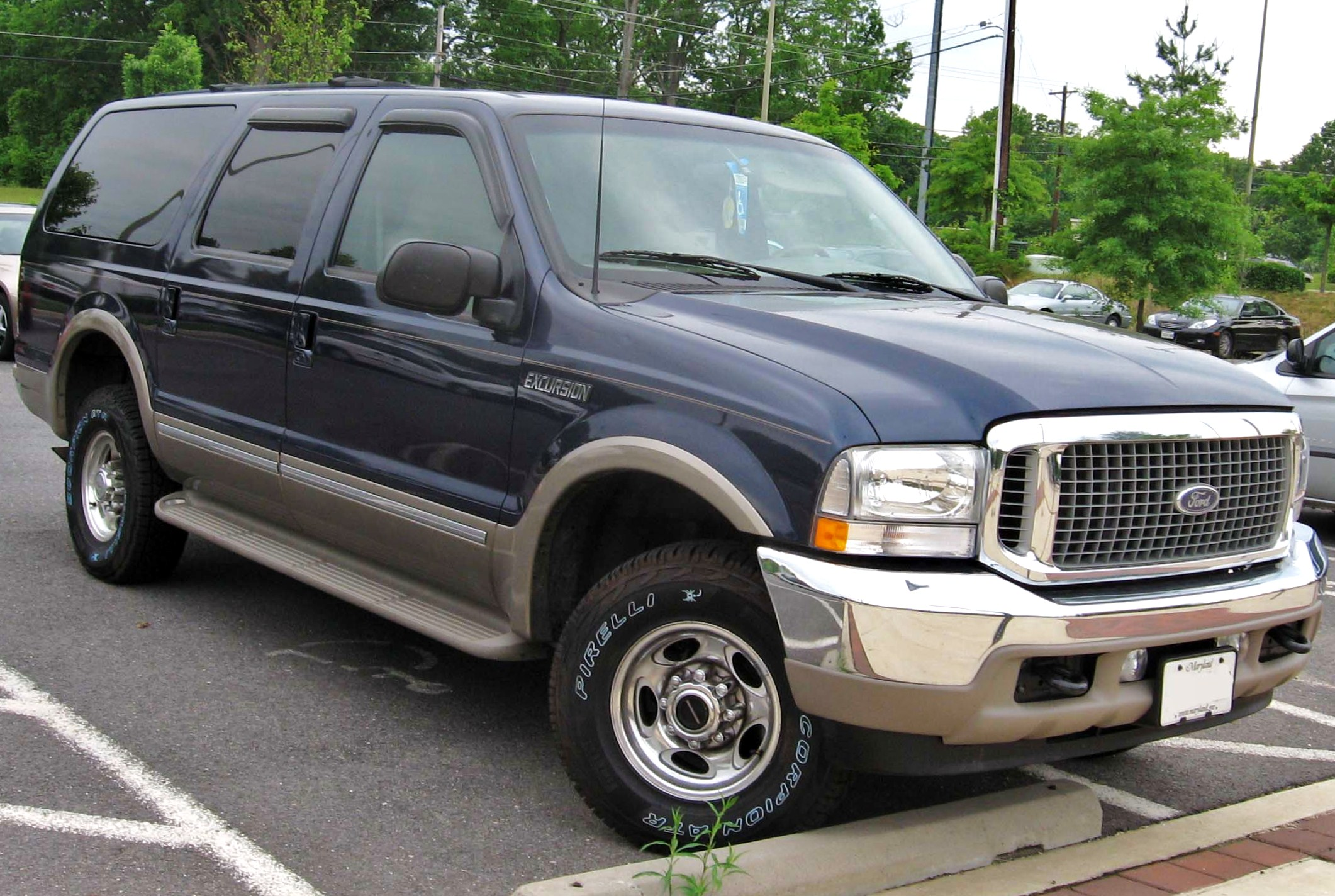 2000-2004 Ford Excursion photographed in USA.